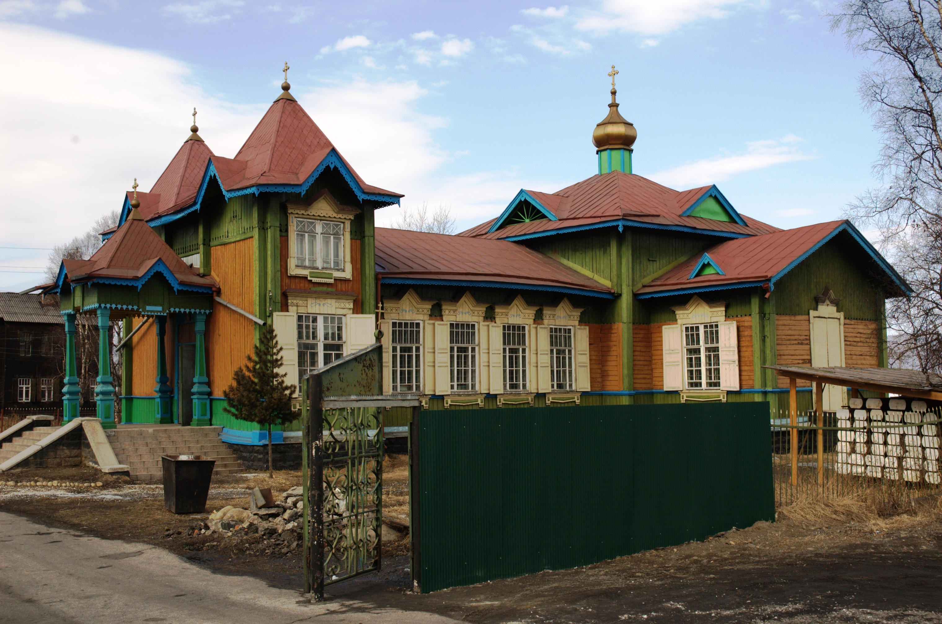 The church of Slyudyanka, Russia.